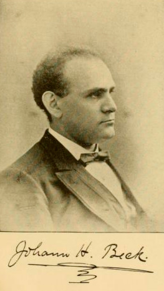 Johann Heinrich Beck, American composer, as pictured in the book “A Hundred Years of Music in America” (1889)